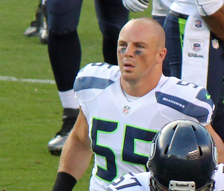 Heath Farwell, a player on the National Football League.